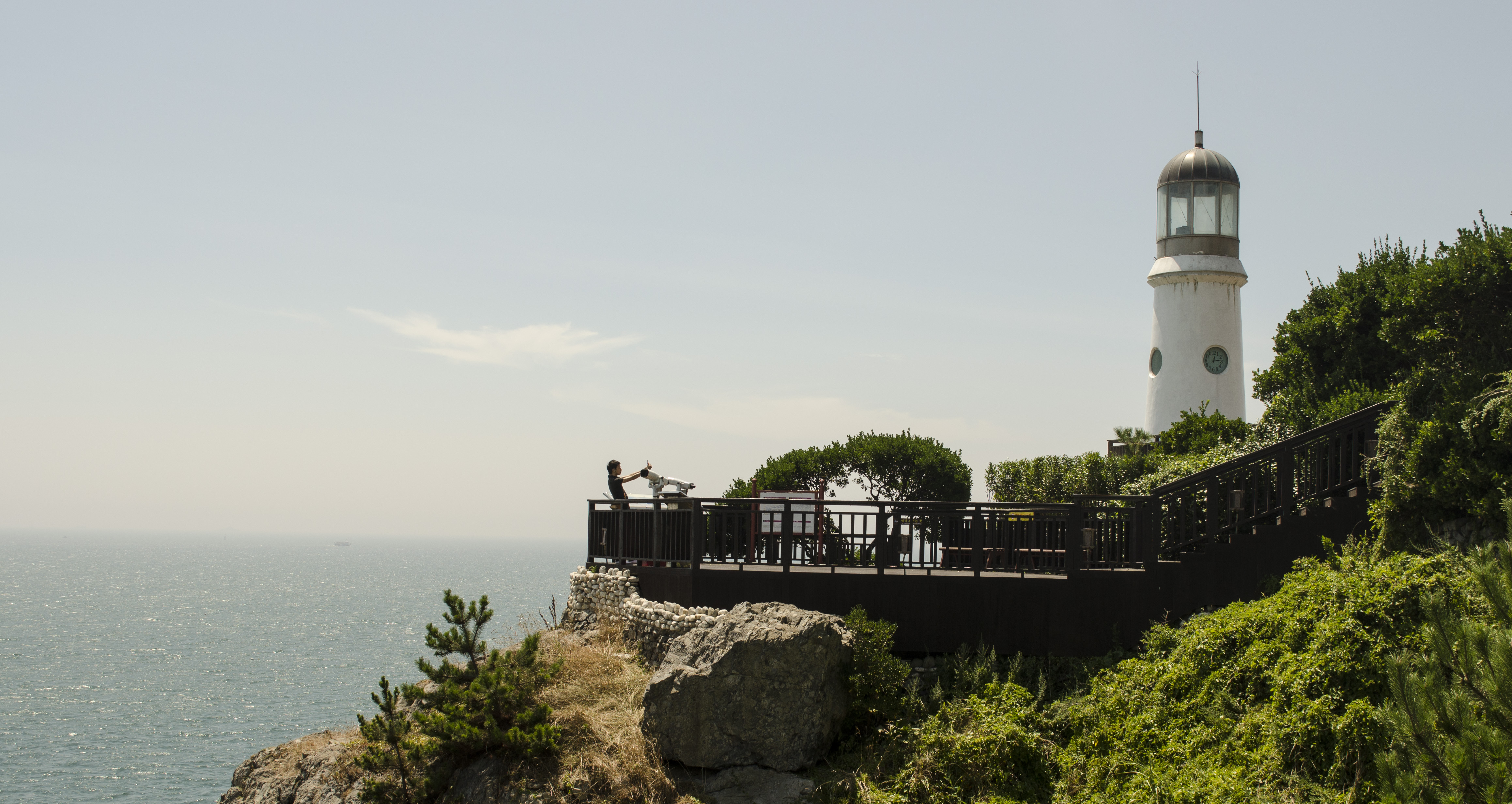 Lighthouse at Haeundae in Busan, South Korea. Photograph from Flickr; author StephNurnberg; license of cc by 2.0.